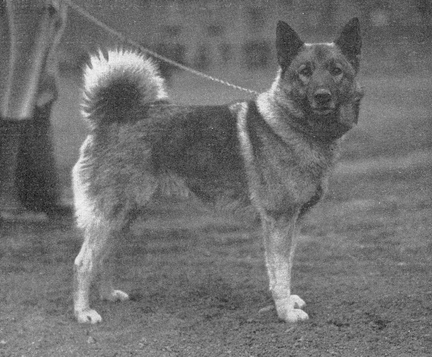 A Norwegian Elkhound from 1932 in Norway, named Boy av Glitre, owned by mr Opdahl in Ski, Akershus.